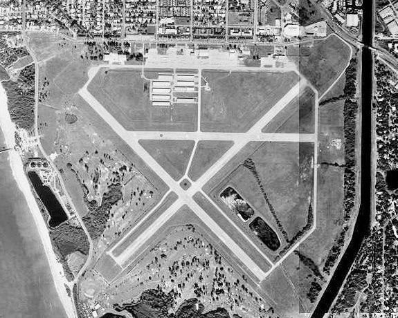 USGS digital orthophoto of Venice Municipal Airport in Florida